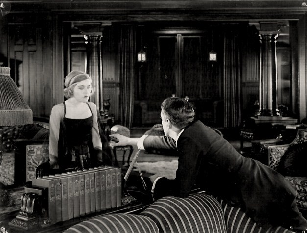 Mae Murray & Alan Roscoe in Her Body in Bond - publicity still